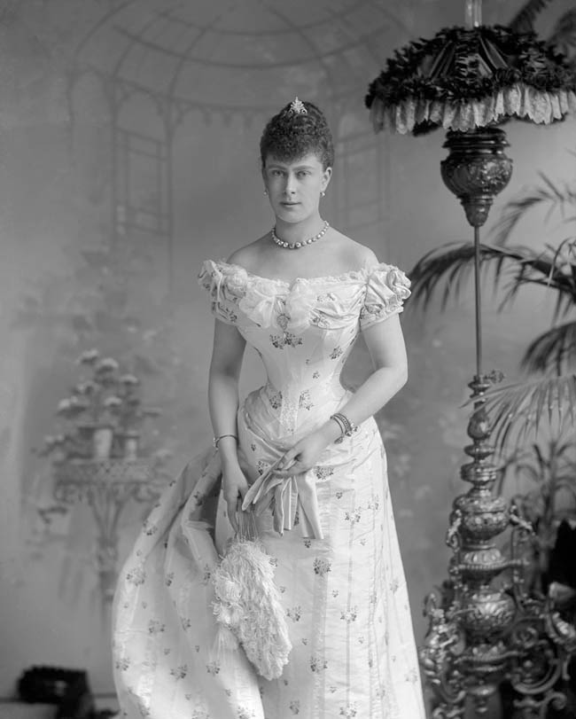 Portrait of Queen Mary (1867–1953) when Princess Victoria Mary of Teck, sitting prior to wedding, 6 July 1893. The Diamond rivière necklace was a gift from King Edward VII and Queen Alexandra in memory of the Duke of Clarence, 27 February, 1892.